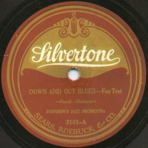 Silvertone Records gramophone record Label